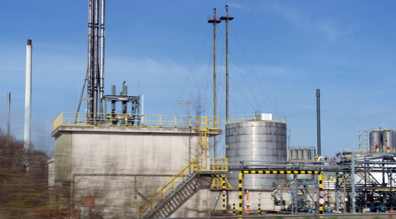 Geleen, the Netherlands. View from the train of SABIC plant at Chemelot industrial park.